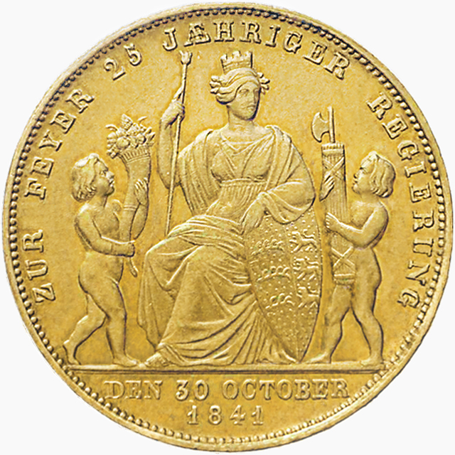 Gulden 1841, embossed on the occasion of the 25th government anniversary of William I, King of Württemberg (1816-1864). Reverse: Württembergia sitting with mural crown, domination rod and coat of arms shield. Two cupids do her homage with cornucopia and fasces. Parallel to this coinage there was also an edition in silver.